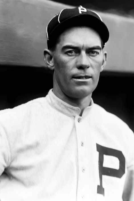 Jimmy Lavender, pitcher for the Philadelphia Phillies in 1917